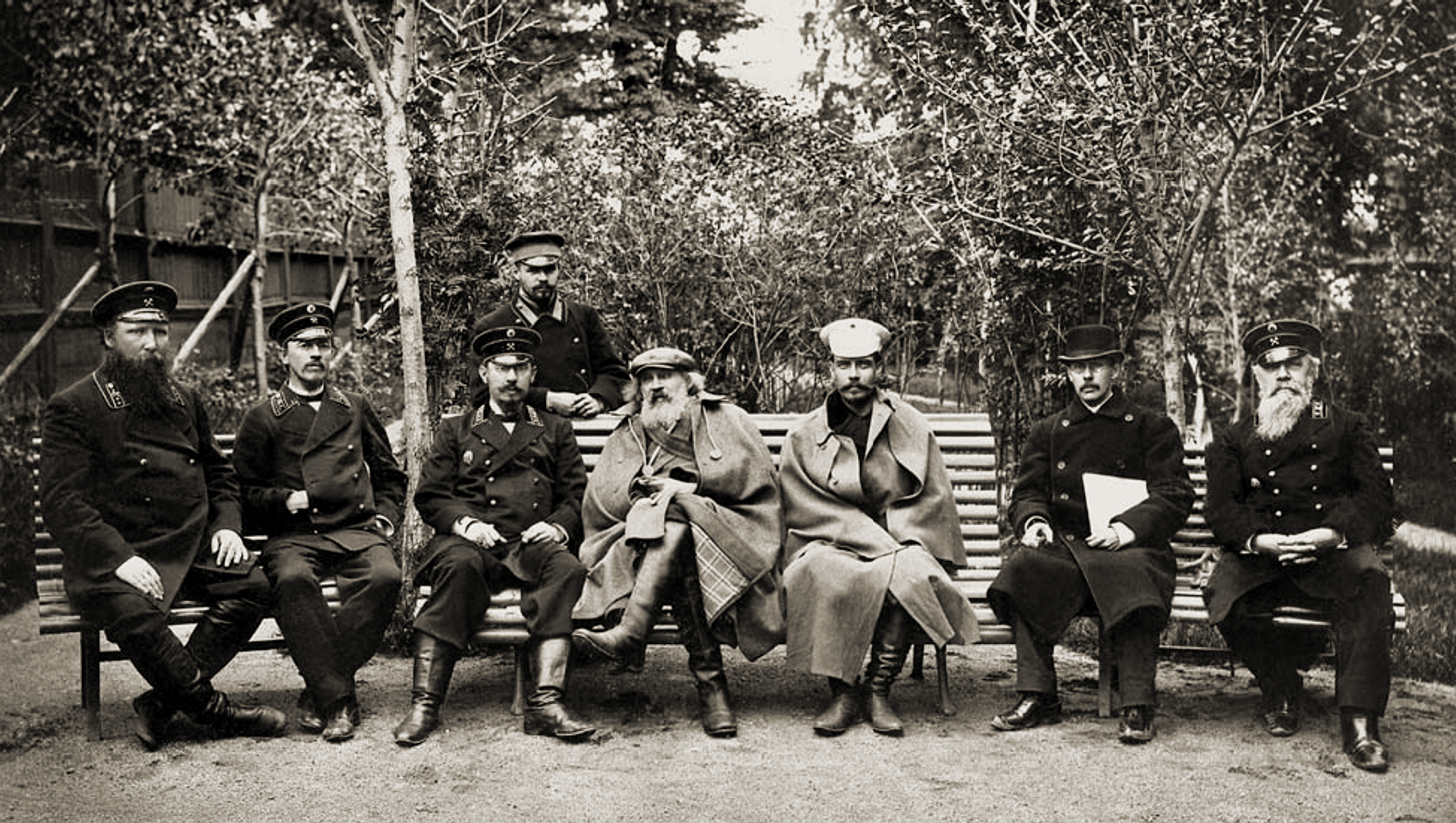 D. I. Mendeleev on Kushvinsk Metal Works in Ural Expedition 1899